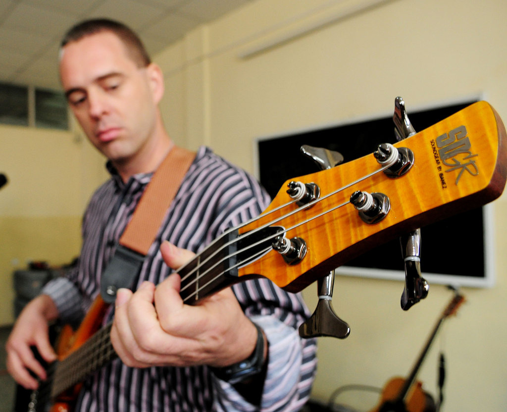 Ibanez SDGR - SounDGeaR by Ibanez original description U.S. Air Force Master Sgt. Eric Sullivan vocalist, bass, and cajon player tunes his guitar before performing at the the Police Academy in Bishkek, Kyrgyzstan Jan. 28, 2010. Celtic Aire, Air Force Central Command band is scheduled to play at several bases in the AOR to entertain deployed Airman, Soldiers, Sailors and Marines but while in Kyrgyzstan the band got a unique opportunity to perform for the local community. (U.S. Air Force photo/Senior Airman Nichelle Anderson/released)